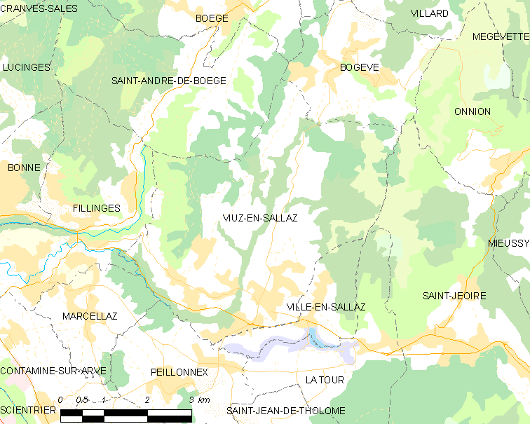 Map of French municipality Viuz-en-Sallaz